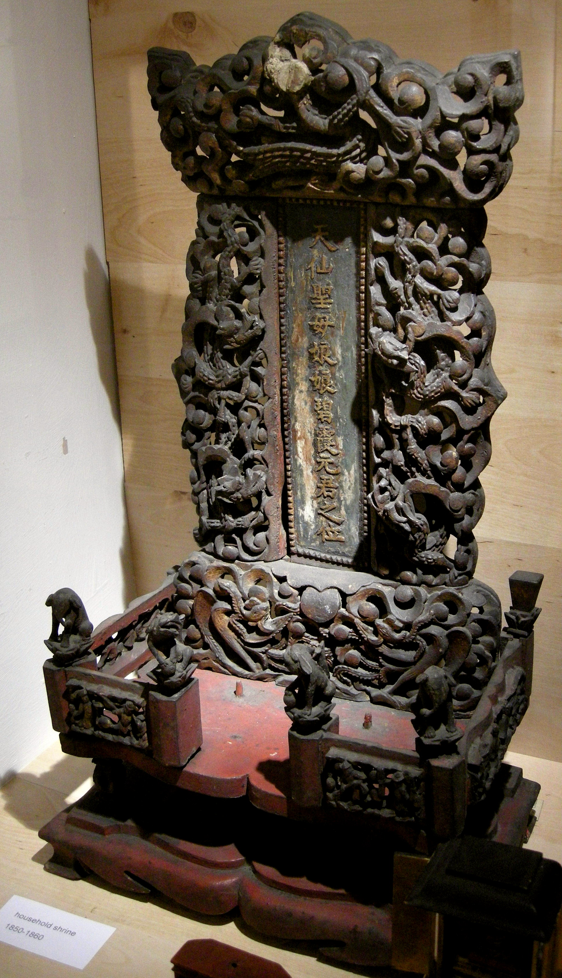 Museum label says: "Household shrine 1850-1860". Chinese; ca.20" high. Bankfield Museum, Halifax, West Yorkshire, England. 53.43'.57".N; 1.51'.48".W.